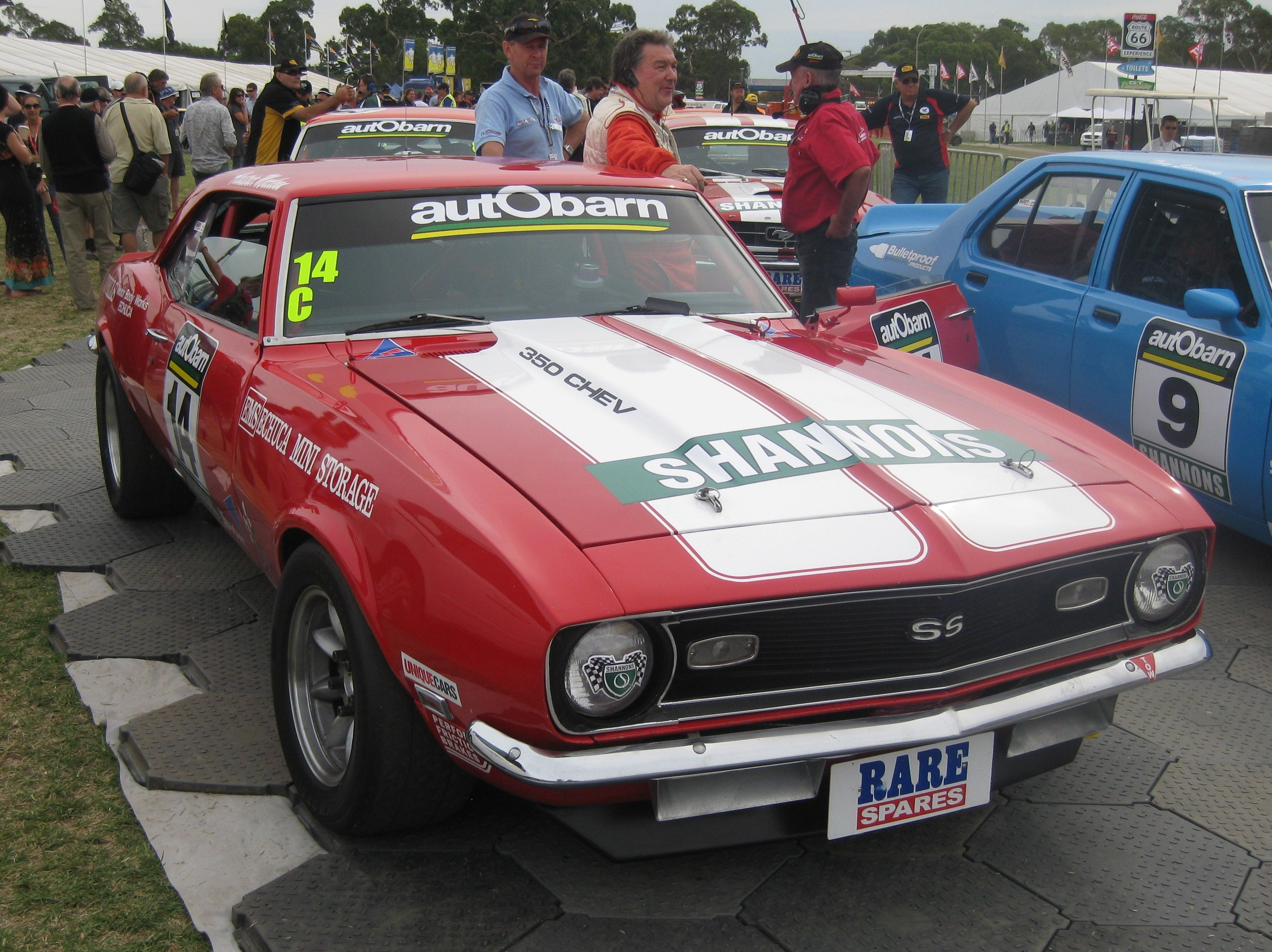 The 1968 Chevrolet Camaro SS of Alastair MacLean at the Adelaide Parklands Circuit for the opening round of the 2011 Touring Car Masters